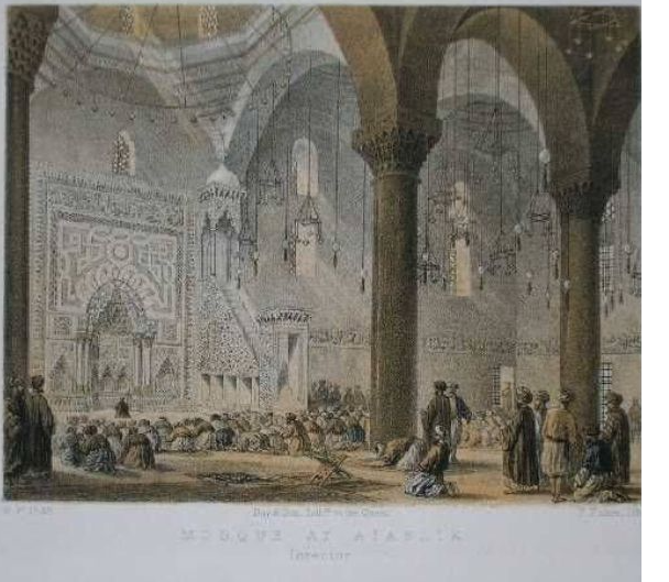 Edward Falkener, Isa bey Mosque, Efes. Interior.